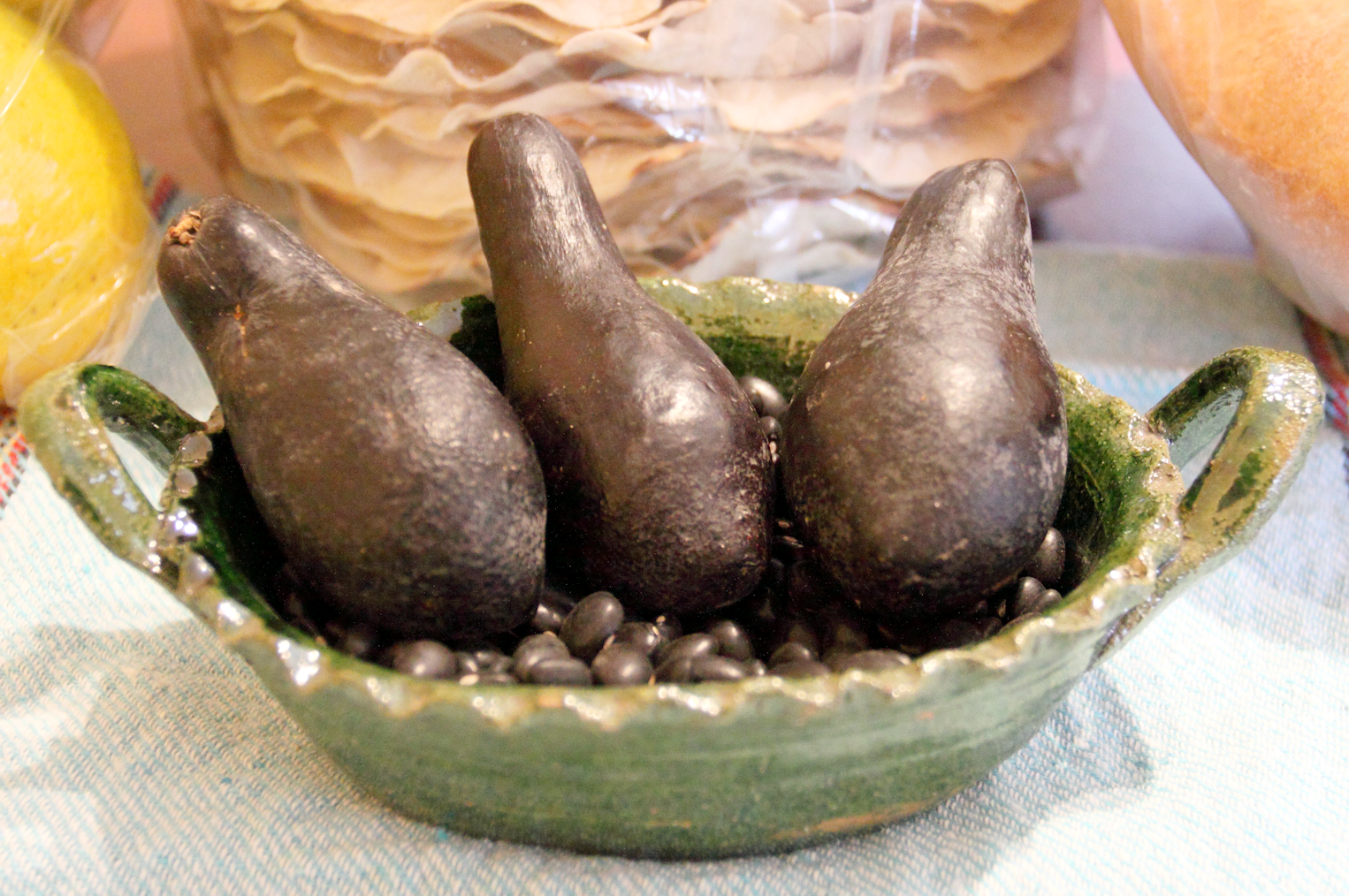 Criollo Avocados, the fruit of the native, uncultivated Criollo Avocado tree, in Oaxaca, Mexico.